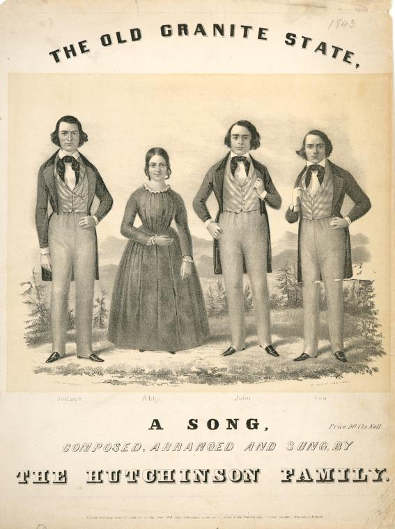 The Old Granite State, a song, composed, arranged and sung, by The Hutchinson Family. Lithograph.